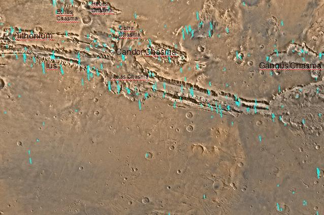 Labeled map of Coprates quadrangle, Mars. The small, colored rectangles represent image footprints for the narrow angle camera on the Mars Global Surveyor. Some are about 1 mile wide, the otheers are about 2 miles wide. The map was made by the U.S. Geological survey for NASA.